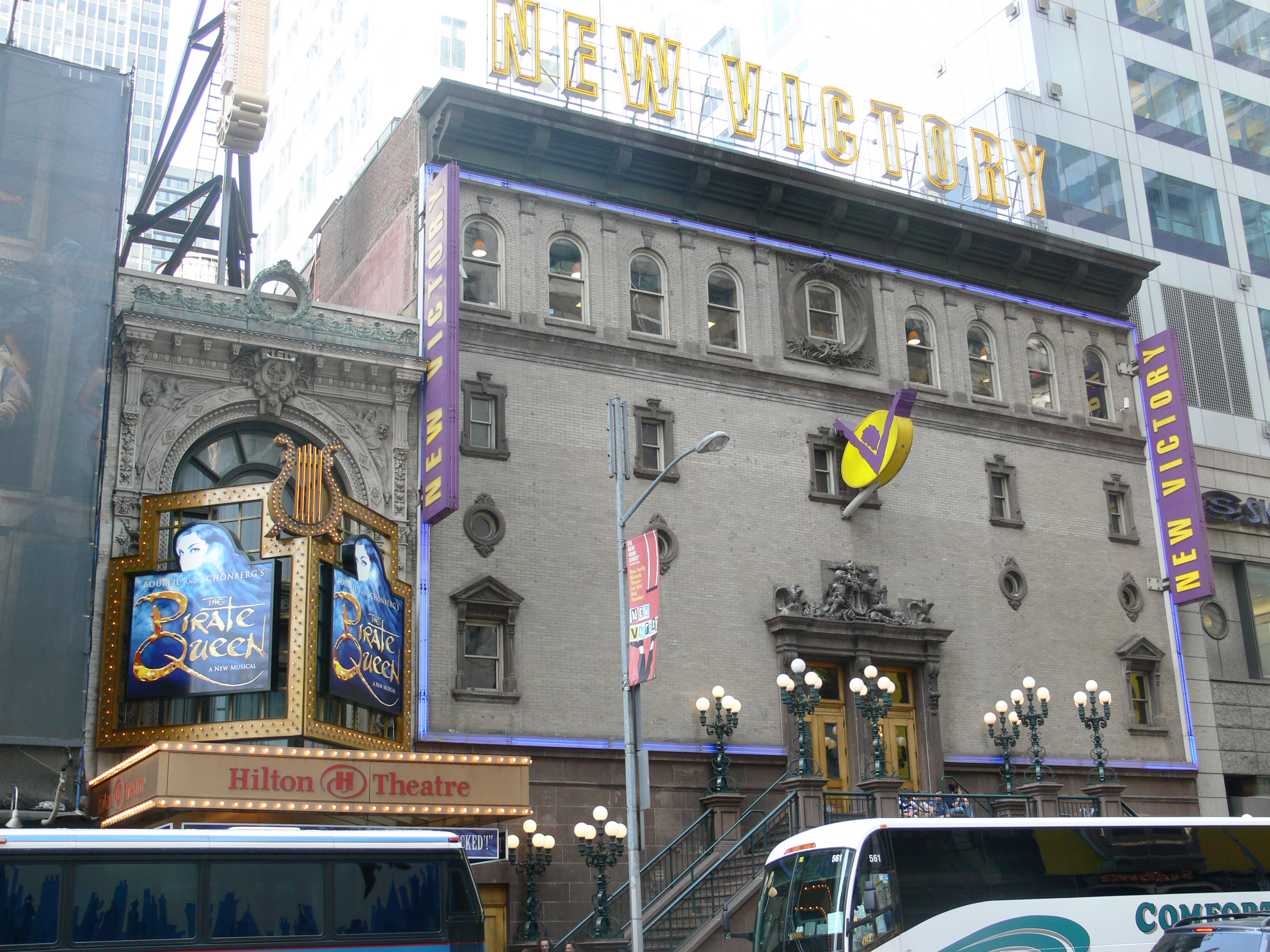 Left: 42nd street entrance of Hilton Theatre, now called the Lyric Theatre (213 West 42nd Street) Right: New Victory Theatre (209 West 42nd Street) Manhattan, New York City